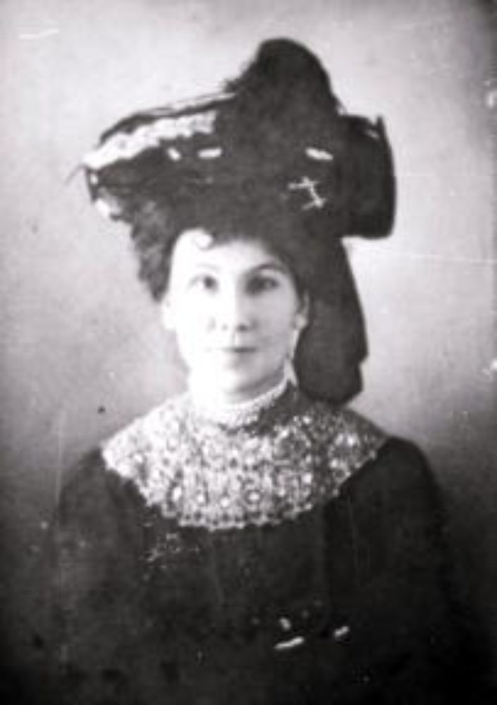 Mary Ann Moore-Bentley also known as Mary Ling circa 1890-1910